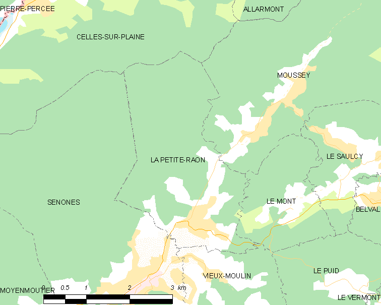 Map of French municipality La Petite-Raon